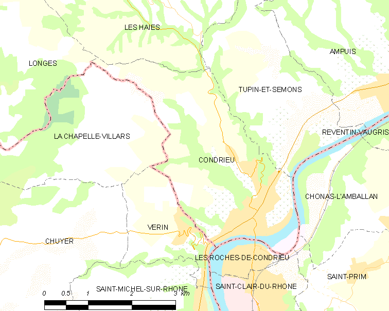 Map of French municipality